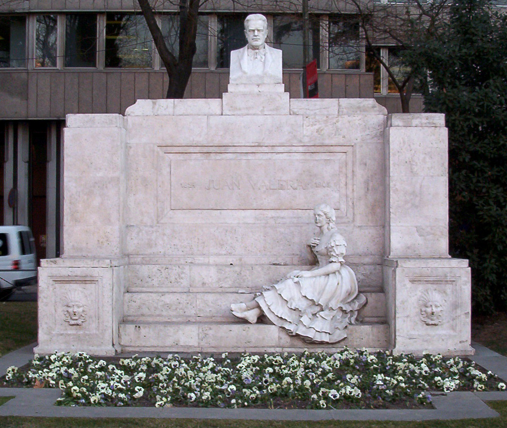 Monument to Juan Valera (1824–1905) at the Paseo de Recoletos (boulevard) in Madrid (Spain). Built in 1928. Sculptor: Lorenzo Coullaut Valera (1876–1932).